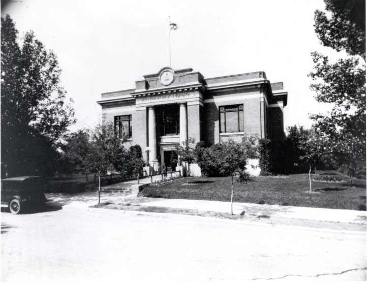 Title: Carnegie Library Building Date: 1925 Retrieval Number: CORA-RPL-B-349 Extent: 1 B&W print; 20.5 cm x 25 cm Scope and Content Note: Carnegie Library Building on the northwest corner of Lorne Street and 12 th Avenue Access Restrictions: None Photographer: Unknown Parent fonds/collection: RPL Photograph Collection Historical Note: The library started on the second floor of City Hall in 1909, but it soon proved so popular that a special building was constructed to house the library. The first library was a Carnegie building. Built with the aid of a $50,000 grant from Andrew Carnegie, the famous American philanthropist, the building stood where the current Central Library branch of the Regina Public Library now stands. The building opened on May 11, 1912 . On June 30, 1912 , the Regina cyclone struck the city, severely damaging the brand-new library. The Carnegie foundation again came through, donating an additional $9,500 to pay for reconstruction efforts.